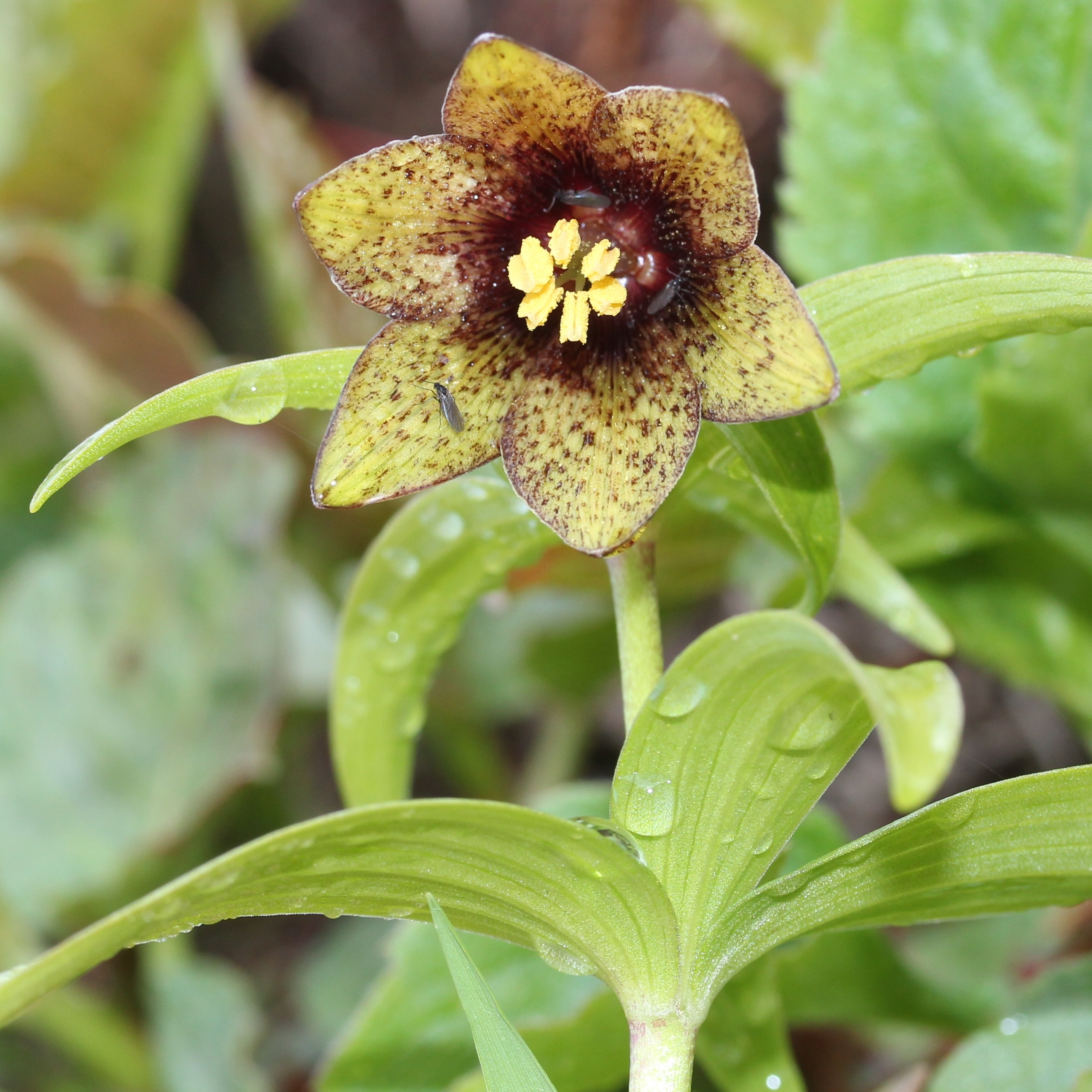 Fritillaria camschatcensis var. keisukei in Murodō, Mount Haku, Hakusan, Ishikawa prefecture, Japan.